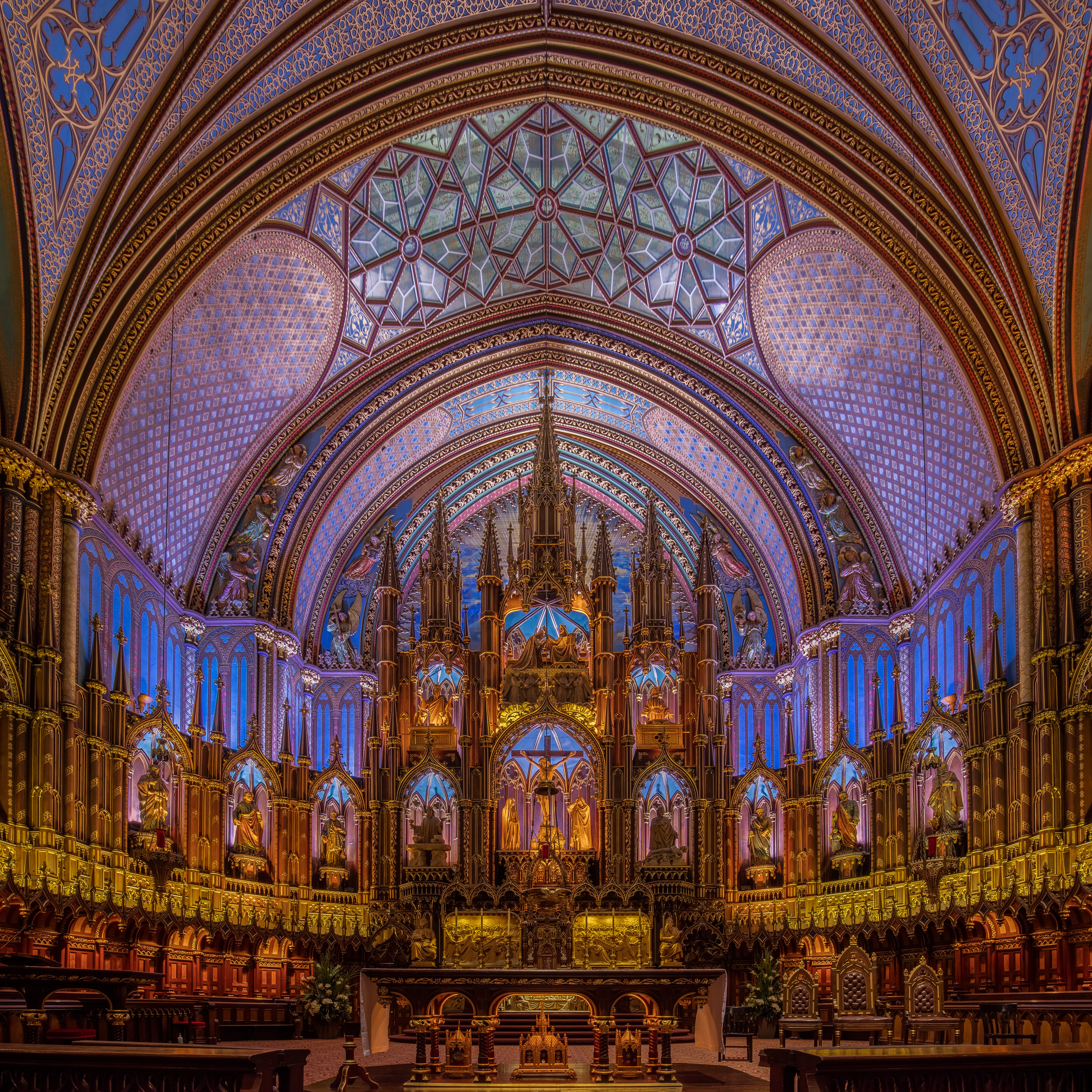 Notre-Dame de Montréal Basilica